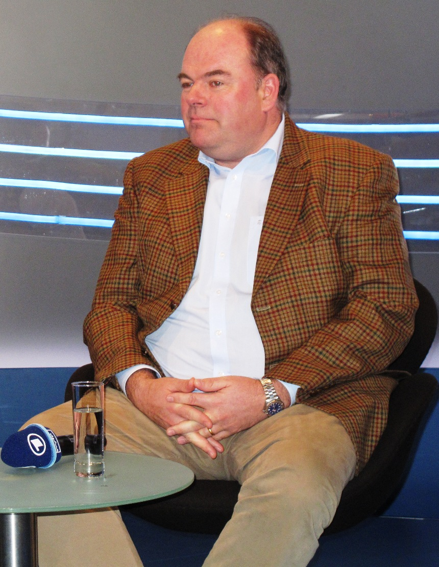 Walter Kohl - Leipzig Bookfair 2011